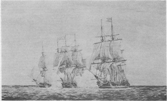 Continental Frigates Hancock and Boston capturing British Frigate Fox 7 June 1777